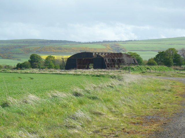 WWII hangar on Fearn Drome. Taken from the perimeter road. The airfield was originally a US Army Air Force station, and later in the war a torpedo training school, HMS Owl.